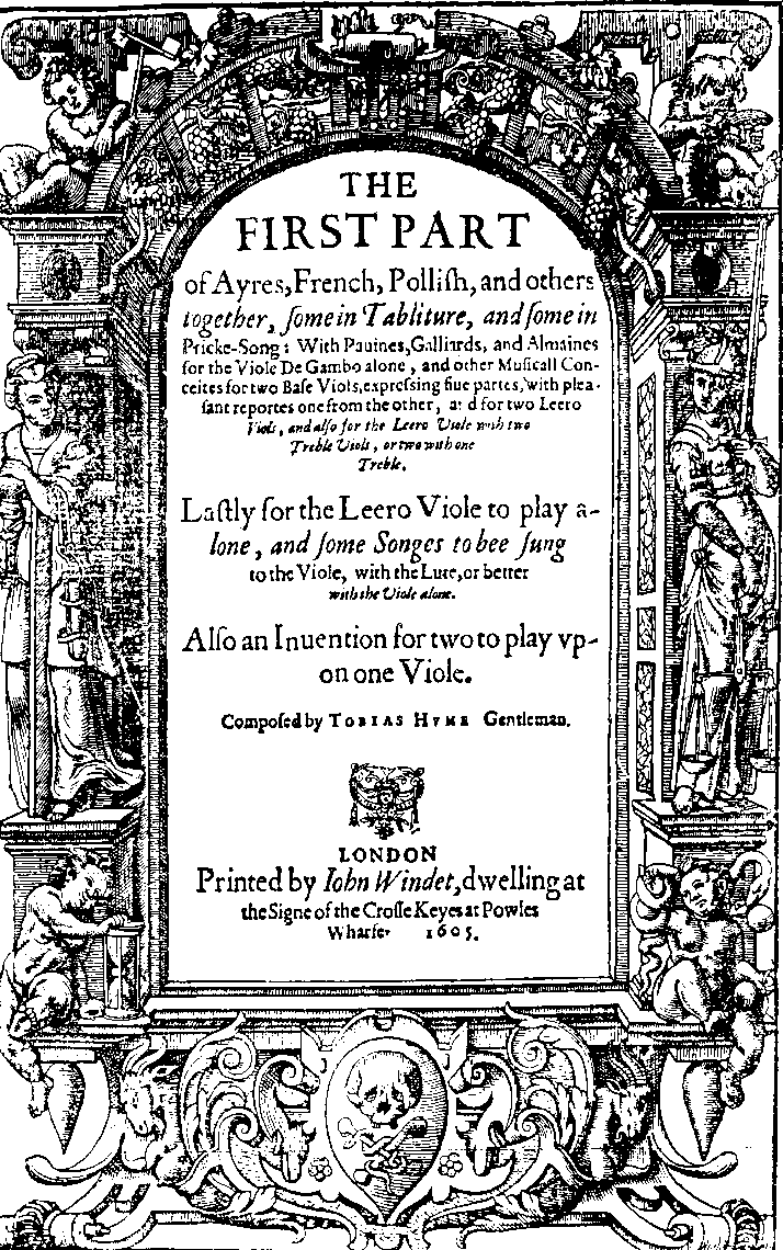 Title page of English composer Tobias Hume's First Part of Ayres, printed by John Windet in 1605. The work contains what may be the earliest examples of pizzicato and col legno.